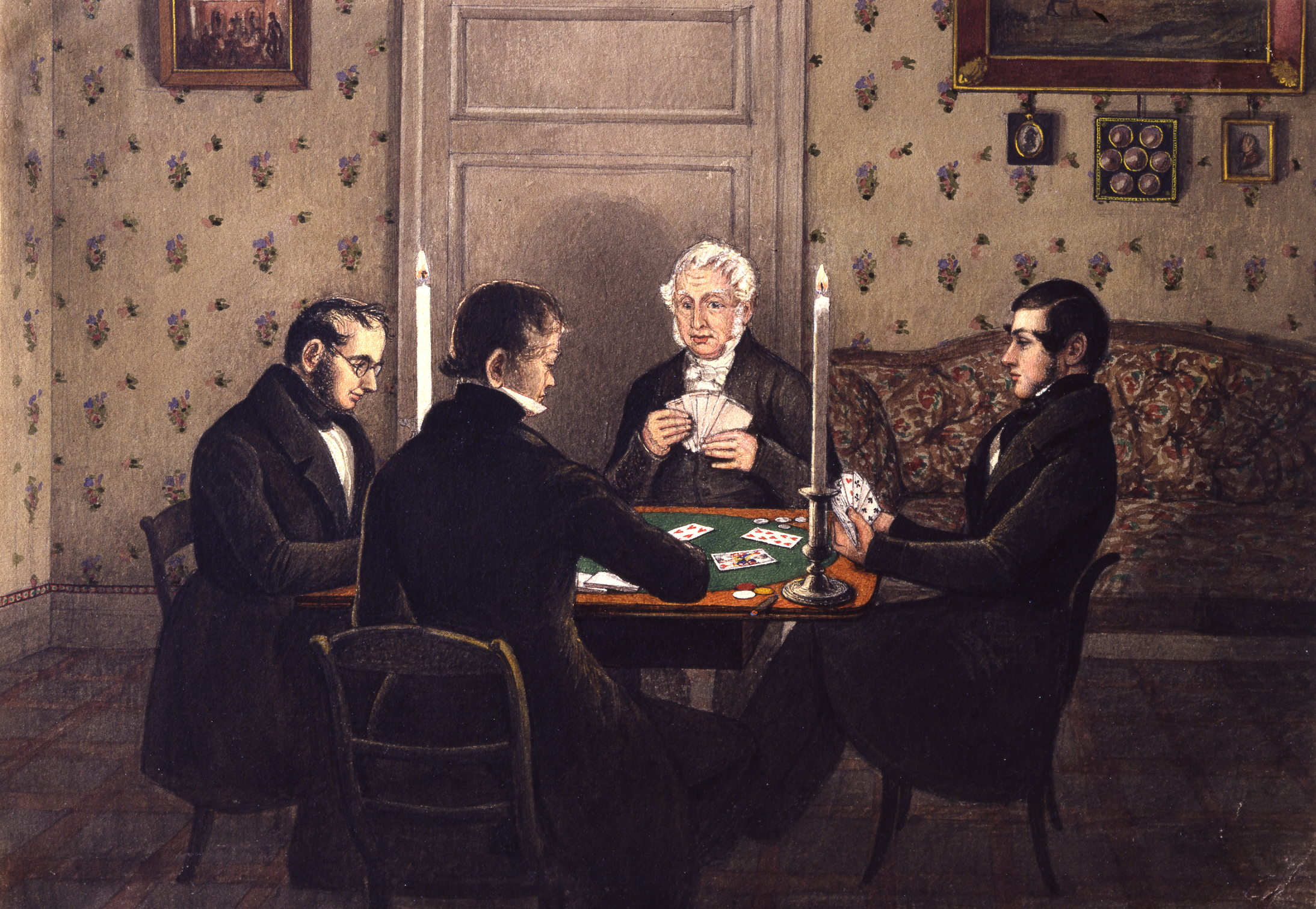 Watercolour of four men playing a game of cards.